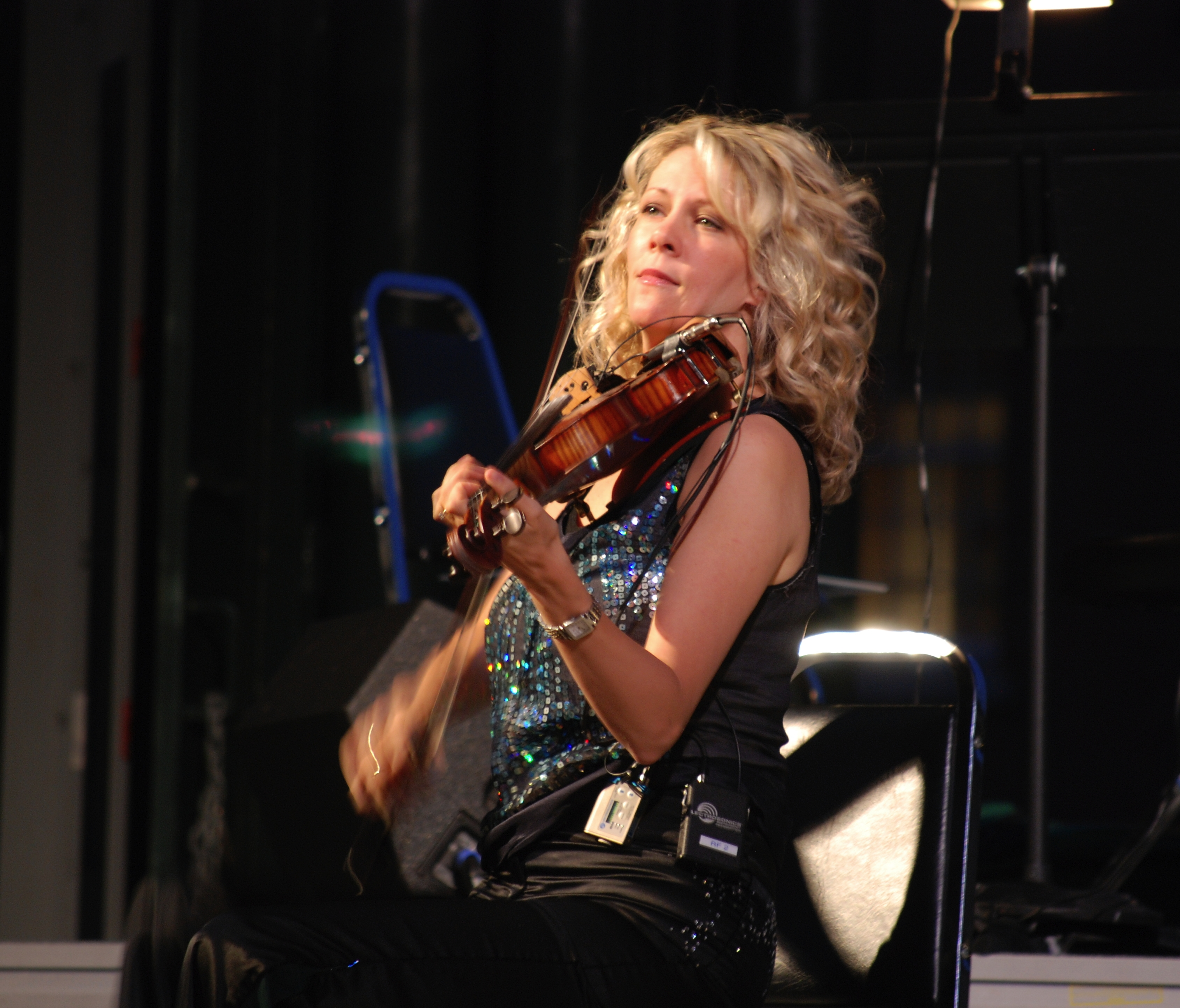 Natalie MacMaster - Boarding House Park, Centralville, Massachusetts September 1, 2007